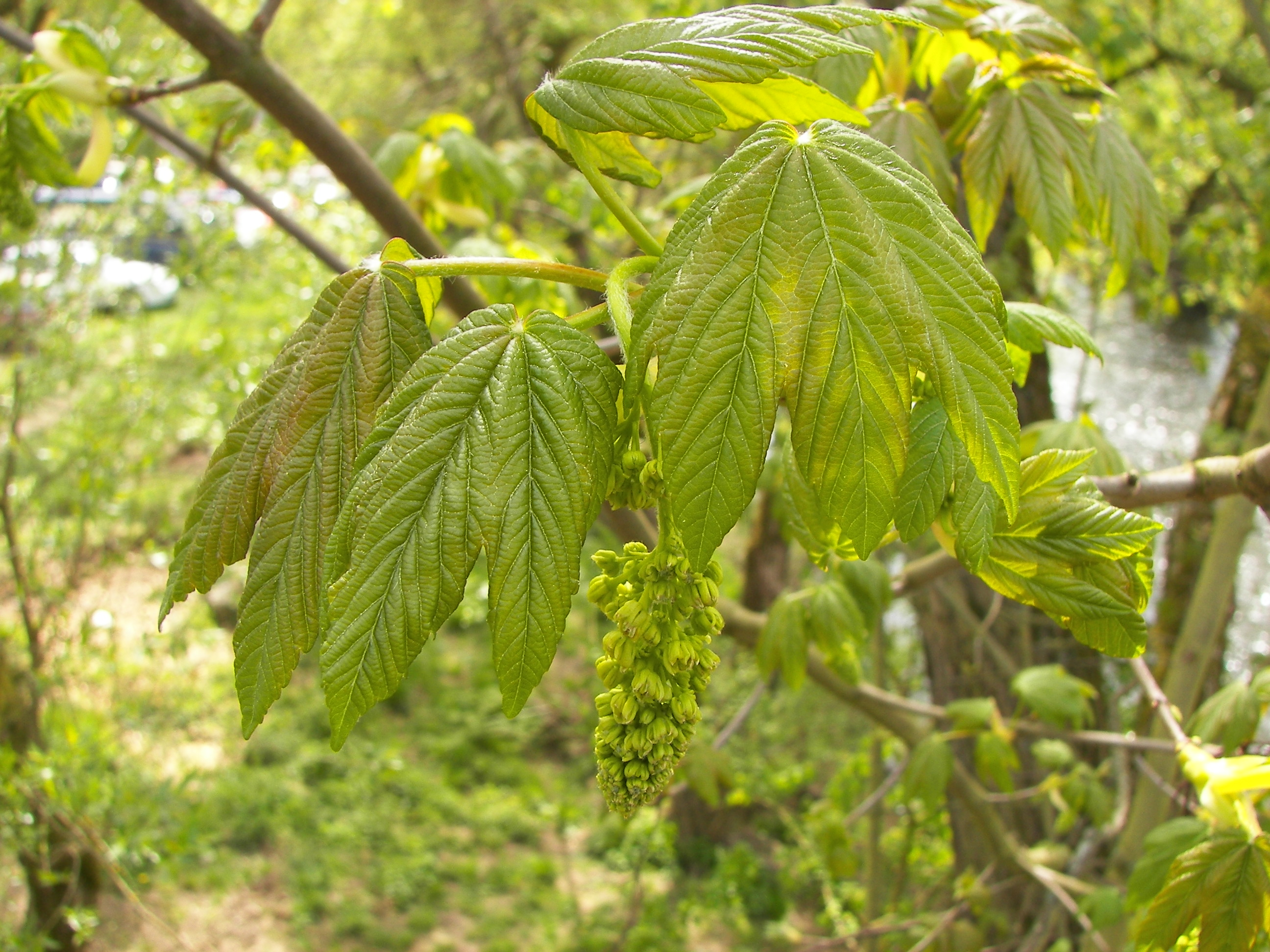 Sycamore Maple (Acer pseudoplatanus), Inflorescence, Location: Marburg, Hesse, Germany